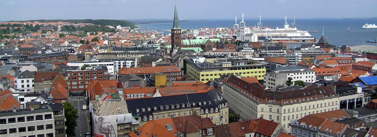 Stitched panorama foto from top of the Århus rådhus over bugten and harbor